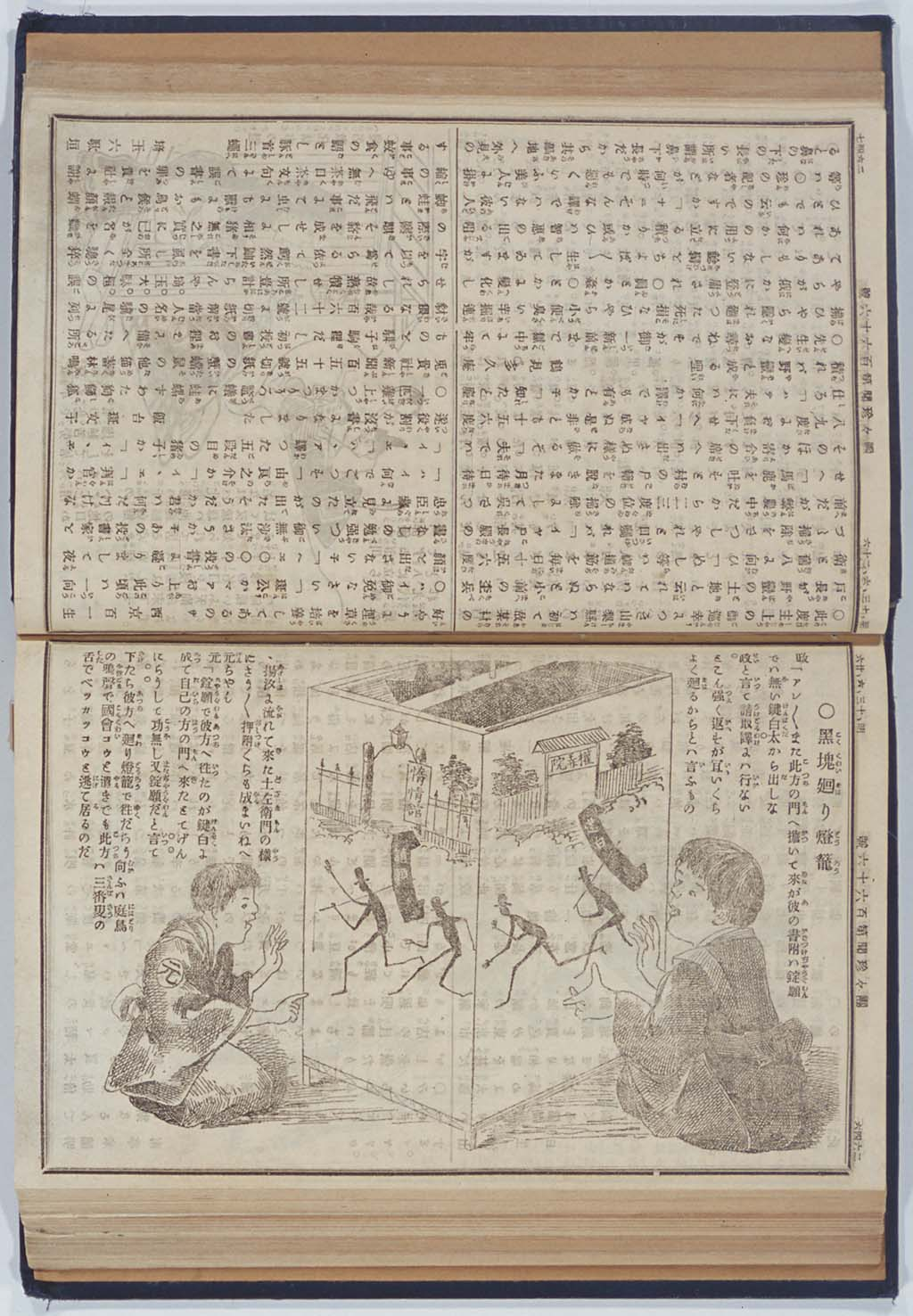 Petition Requesting Permission to Establish a National Assembly From "Dan Dan Chinbun" issue no.166 (1881.6.26)